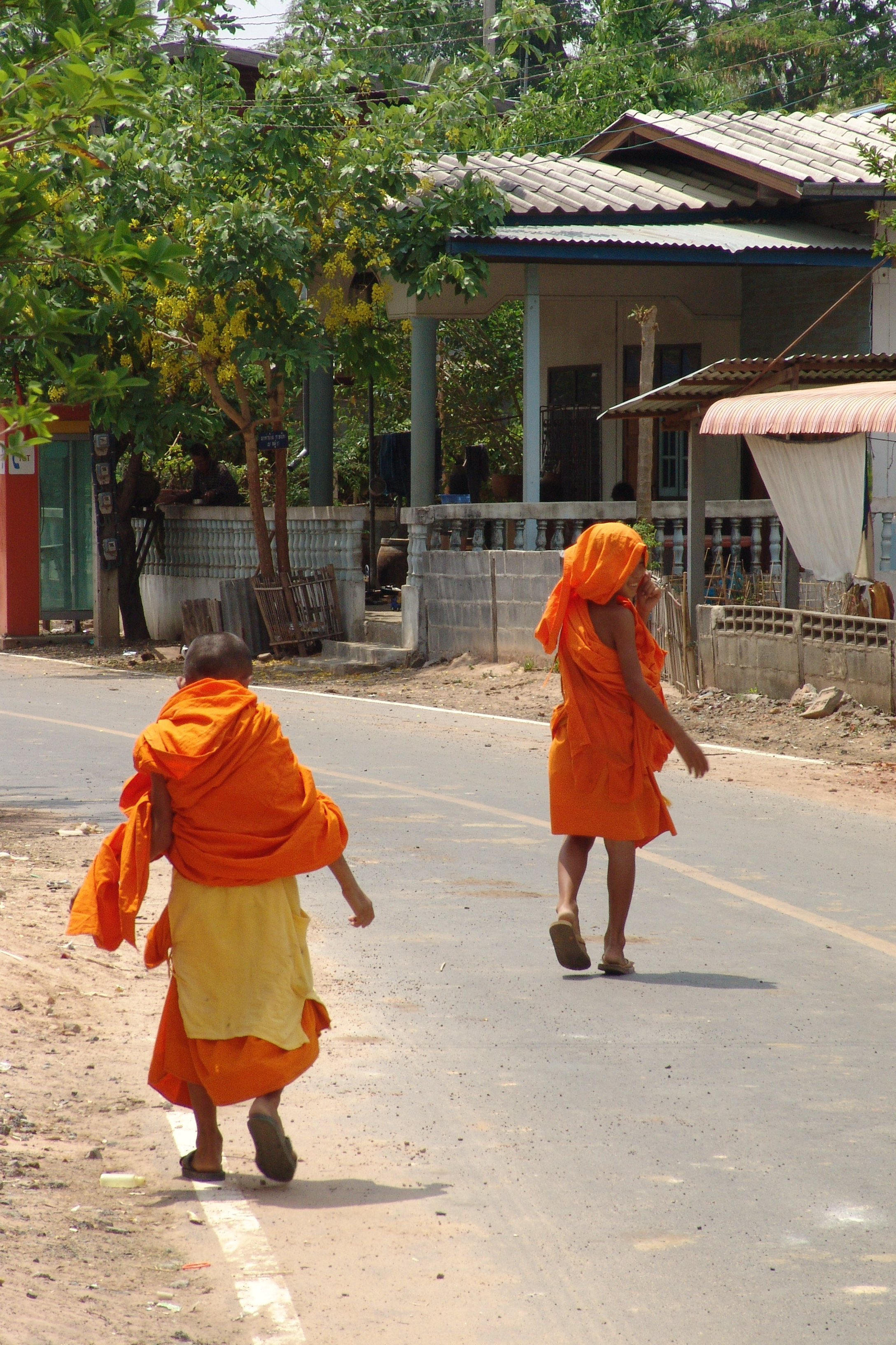 Little Monks, Thailand, Isaan, 2005. Own work